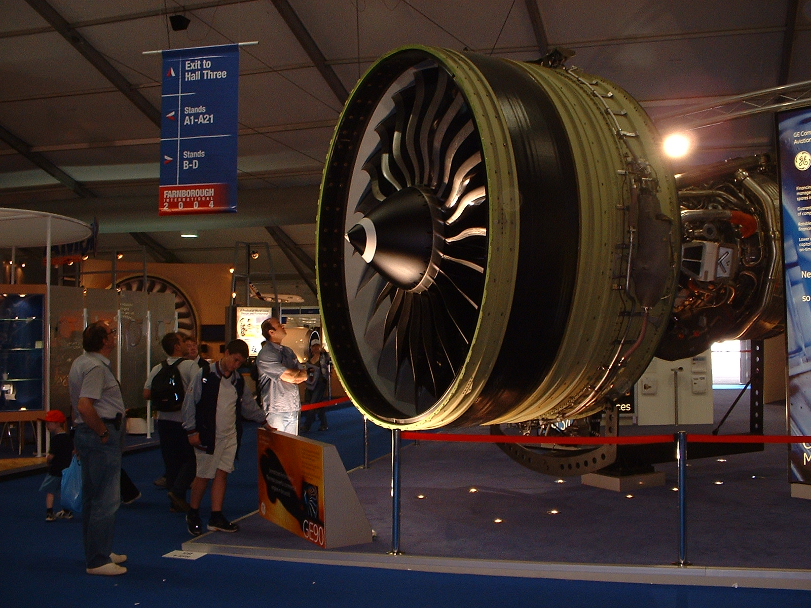 General Electric GE90-115B at the 2004 Farnborough Air Show.